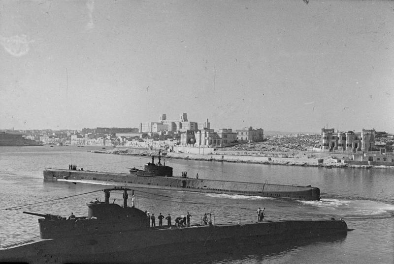 Submarines and Submarine Officers. 4 February 1943, Malta. HMS RORQUAL returning to harbour at the end of a patrol.